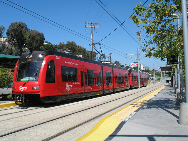 Shiny new red cars